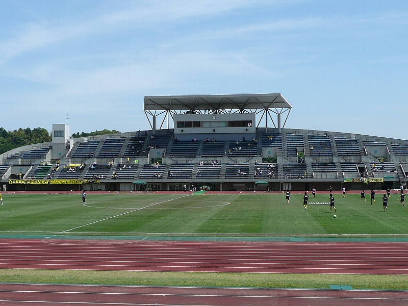 Tōsō Stadium, Asahi City